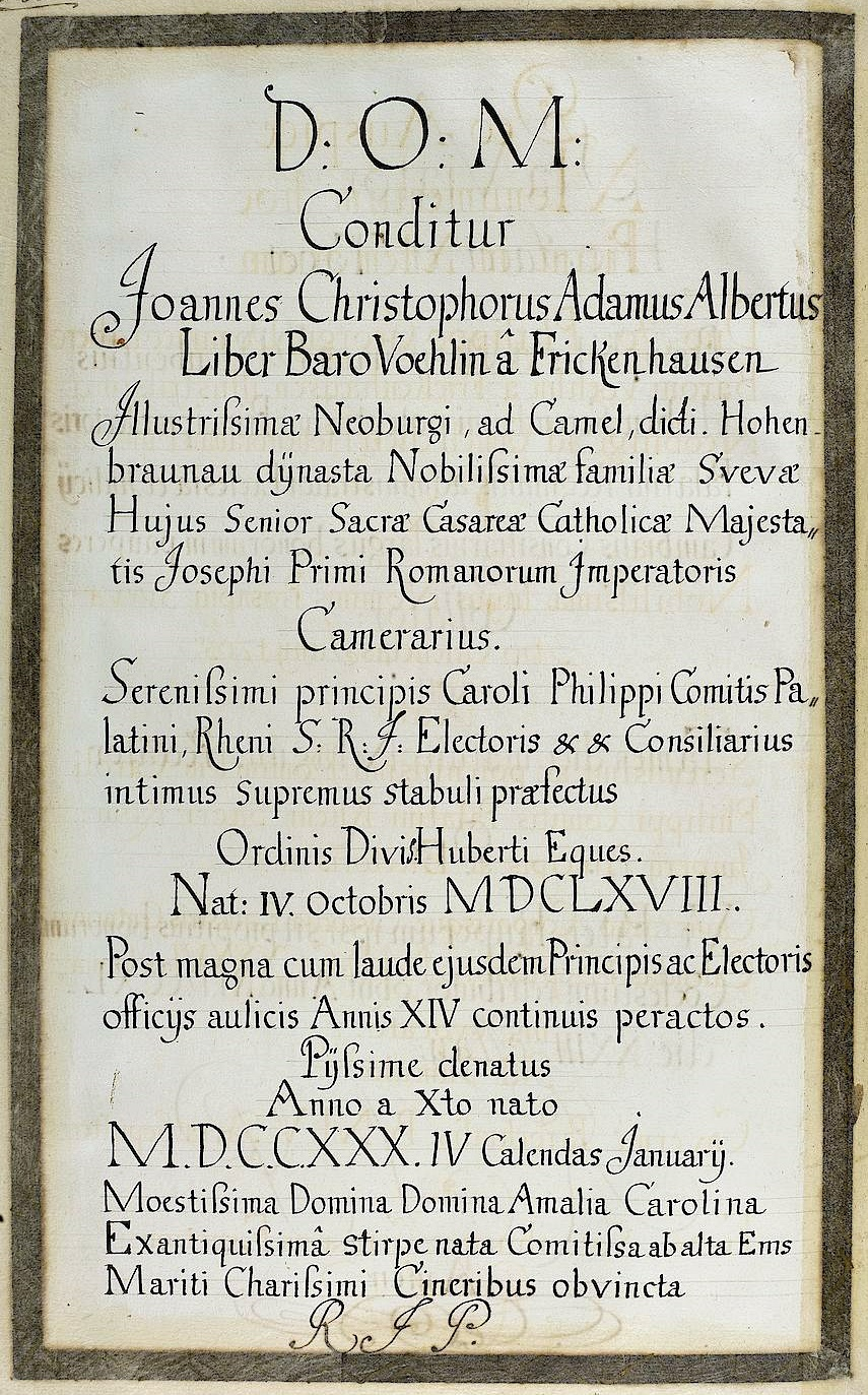 Christoph Adam Vöhlin von Frickenhausen (+ 1730), Epitaphinschrift in Mannheim, St. Sebastian (nicht mehr existent)